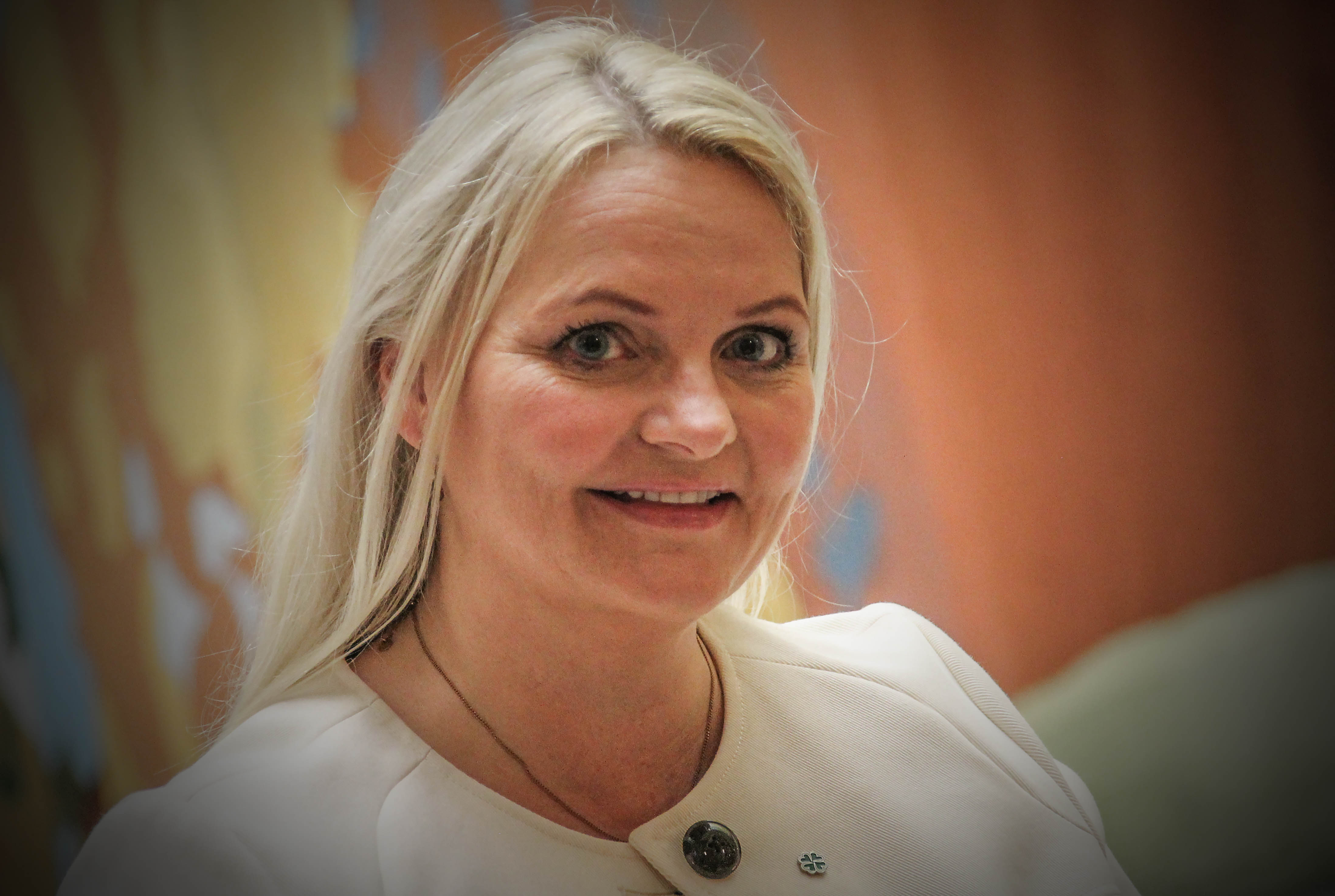 Åslaug Sem-Jacobsen Foto: Ragne B. Lysaker, Senterpartiet